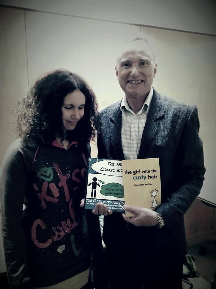 Alis Rowe and Tony Attwood